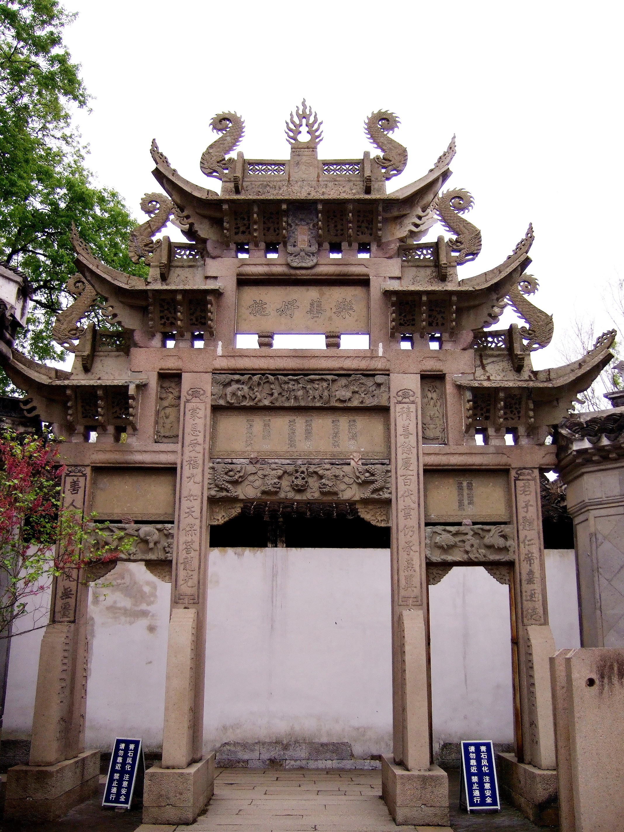 an compliment monument from one Qing emperor due to being kind and willing to help others in the community